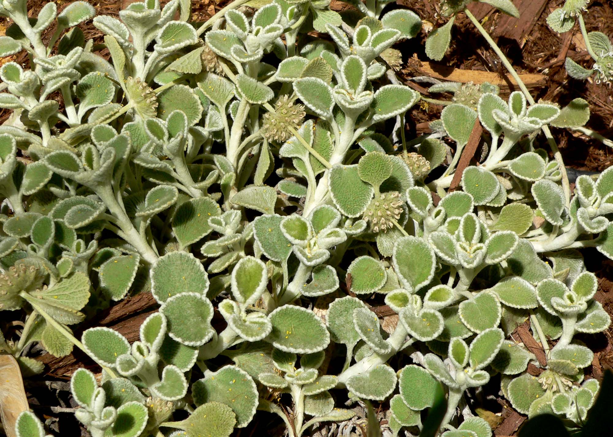 Photo of Marrubium rotundifolium at the Springs Preserve garden in Las Vegas, Nevada